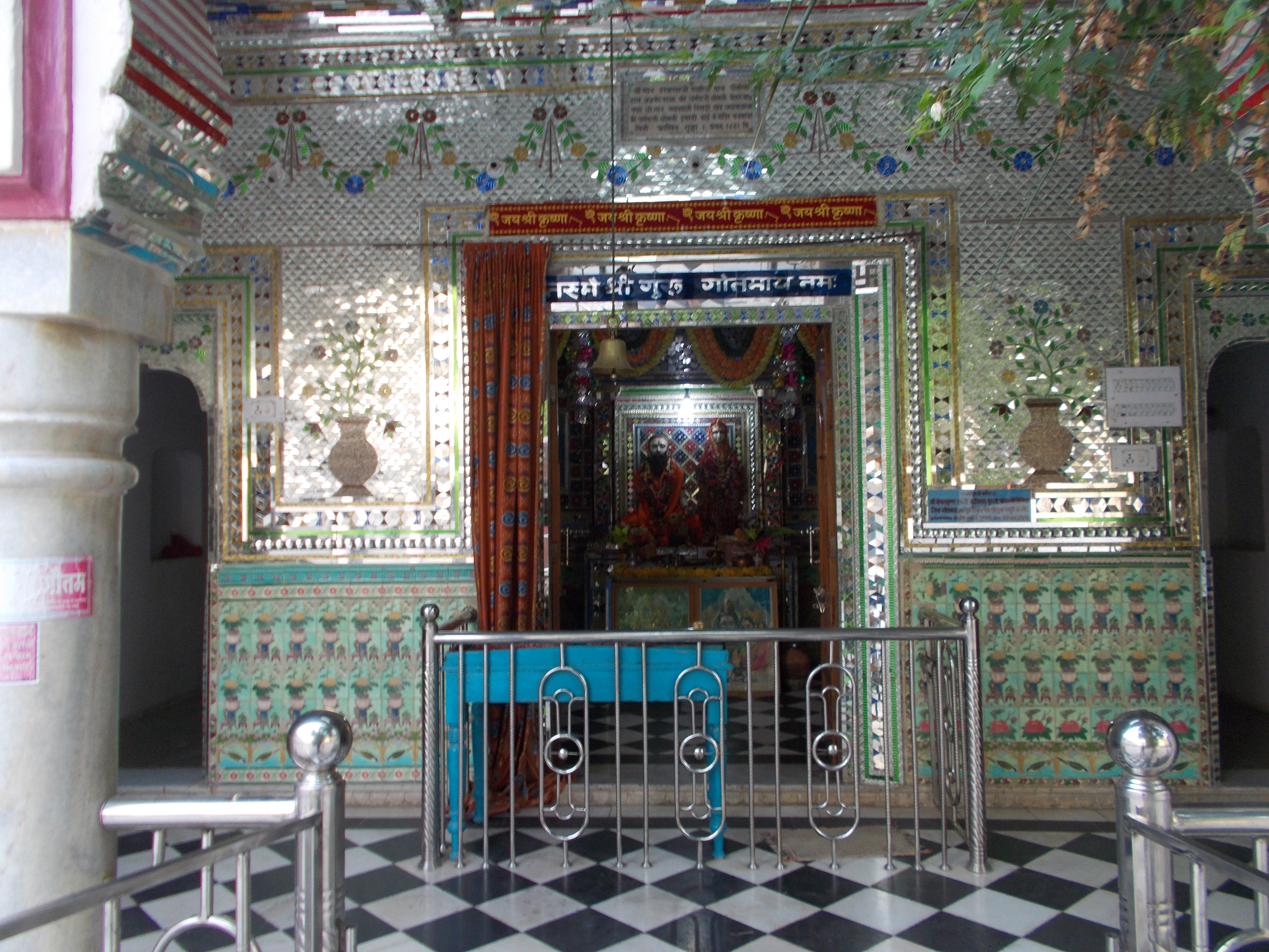 It is a ancient temple in Pushkar devoted to one of the Sapt Rishis Maharishi Gautam and his wife Mata Ahalya.